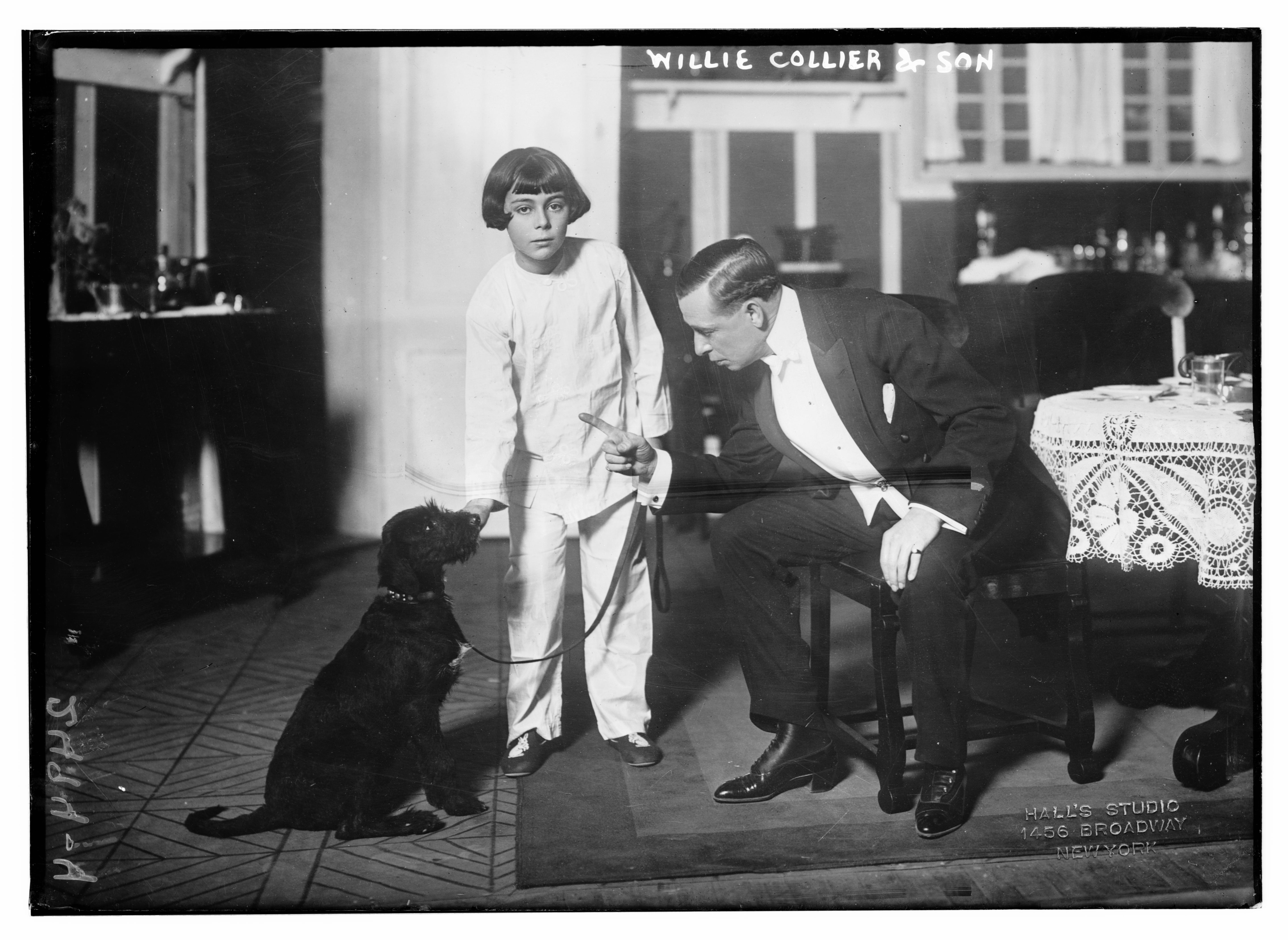 William Collier, Sr. and his son William Collier, Jr.